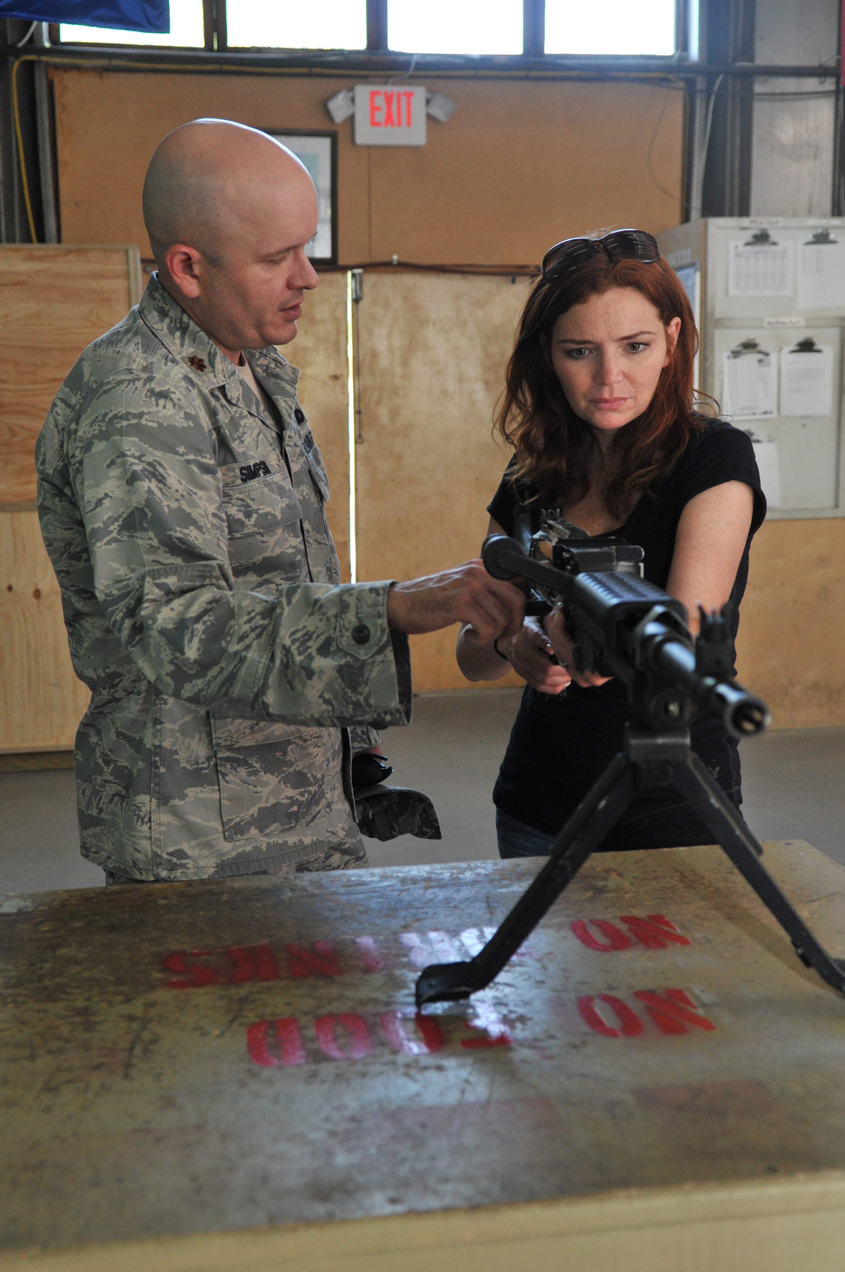 Brigid Brannagh, from the show Army Wives, visits the Transit Center at Manas, Kyrgyzstan, as part of an Armed Forces Entertainment tour on May 12, 2011. (U.S. Air Force photo/Staff Sgt. Stacy Moless)